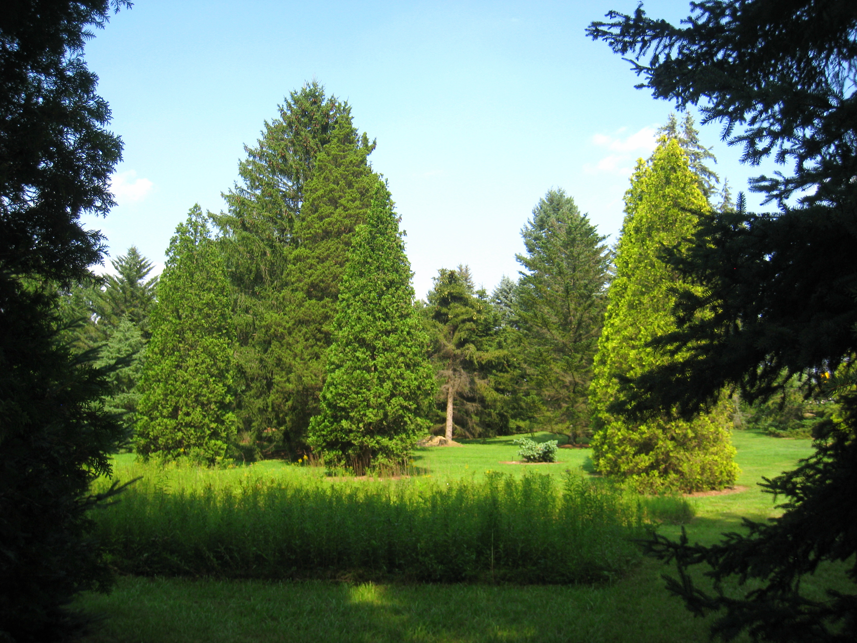 Lee and Virginia Graver Arboretum, Bath, Pennsylvania, USA.